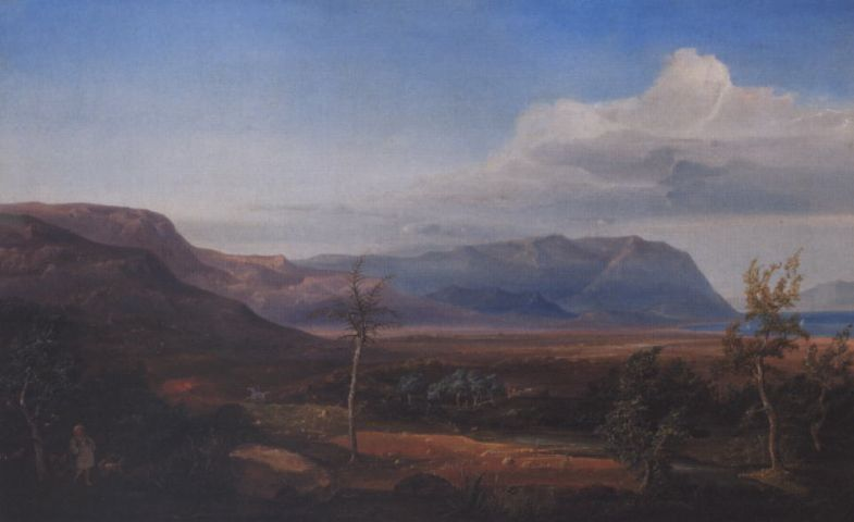 Figures in an extensive Greek landscape